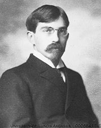 Photo portrait of Dr. William Abbot Oldfather (18801945), who was later Associate Professor of Classics (1909-1915), Professor (1915-1945), Head/Chairman of the Classics Department (1926-45), and Curator of the classical museum at the University of Illinois. Photo by Freidrich Müller, Munich, Germany.